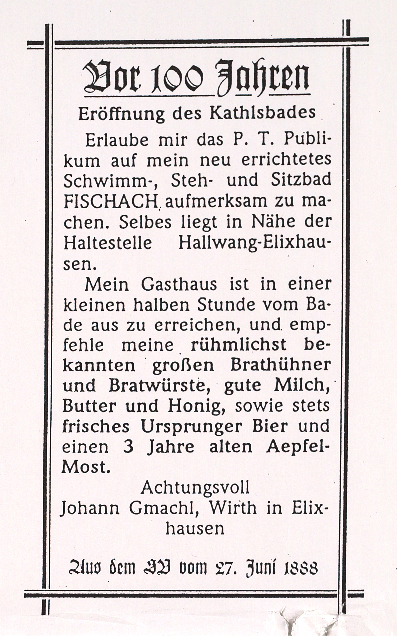 Newspaper publication by Johann Gmachl, host in Elixhausen, dated June 27, 1888.